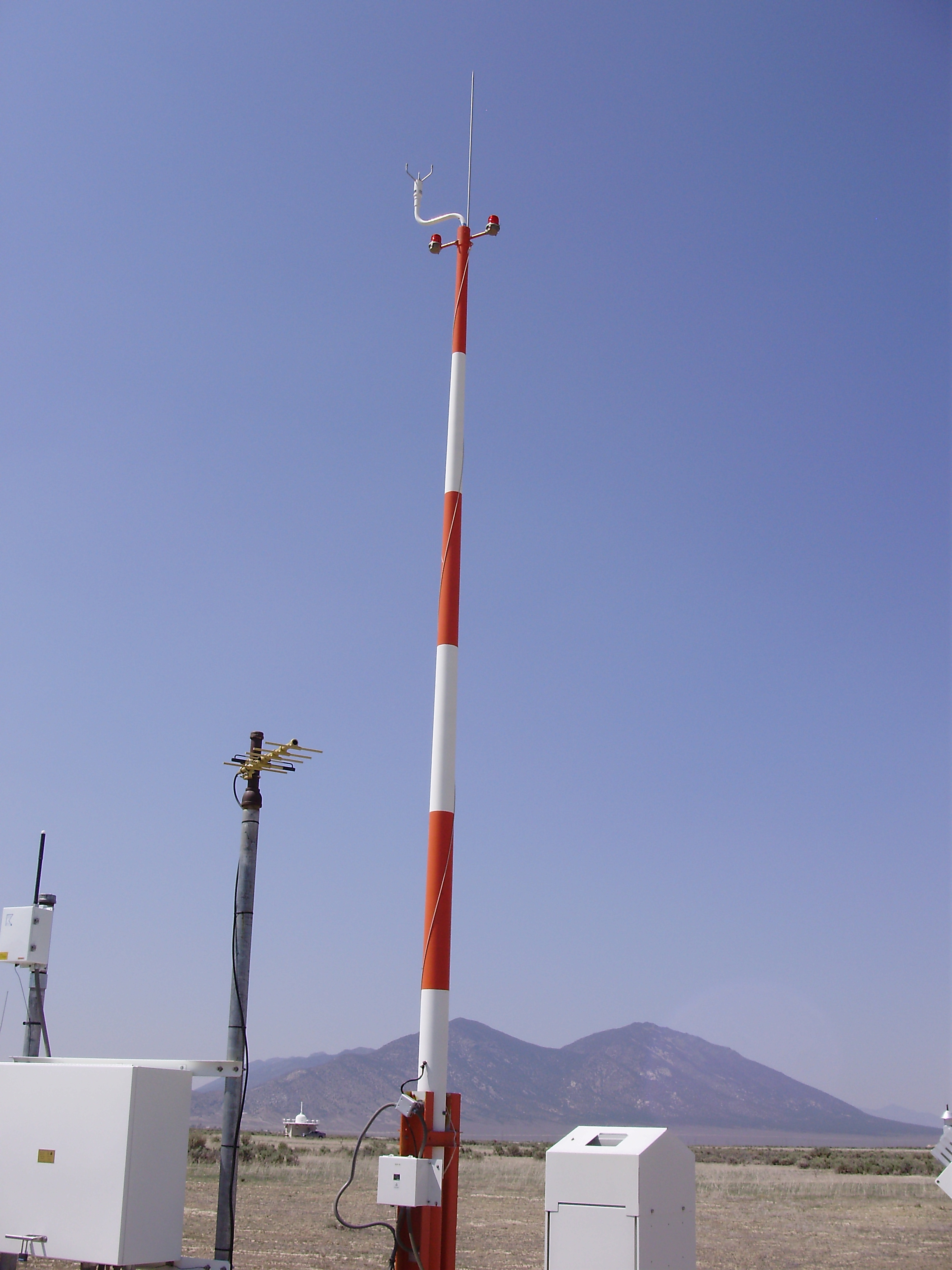 Ely Airport ASOS Ice Free Wind Sensor